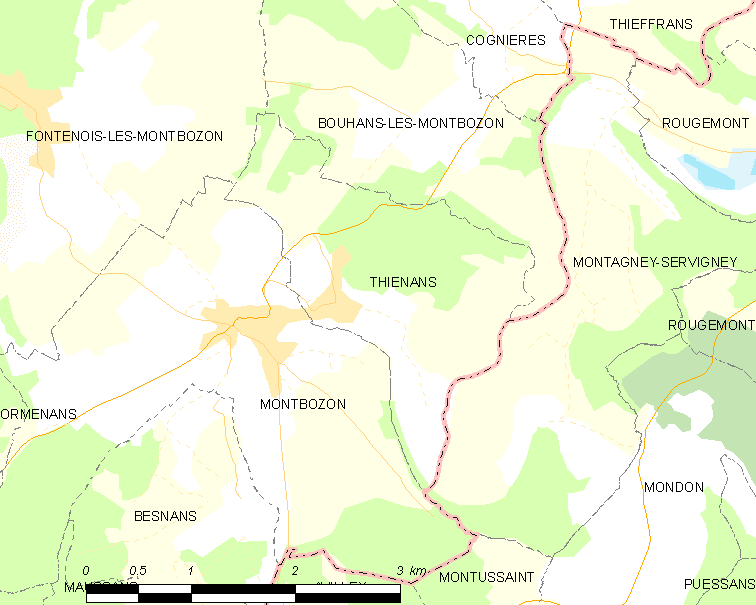 Map of French municipality